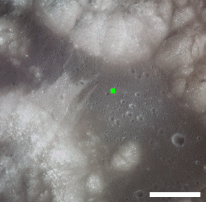 Green dot shows location of Camelot, Taurus-Littrow Valley, on the moon. Scale bar at lower right is 5 km.